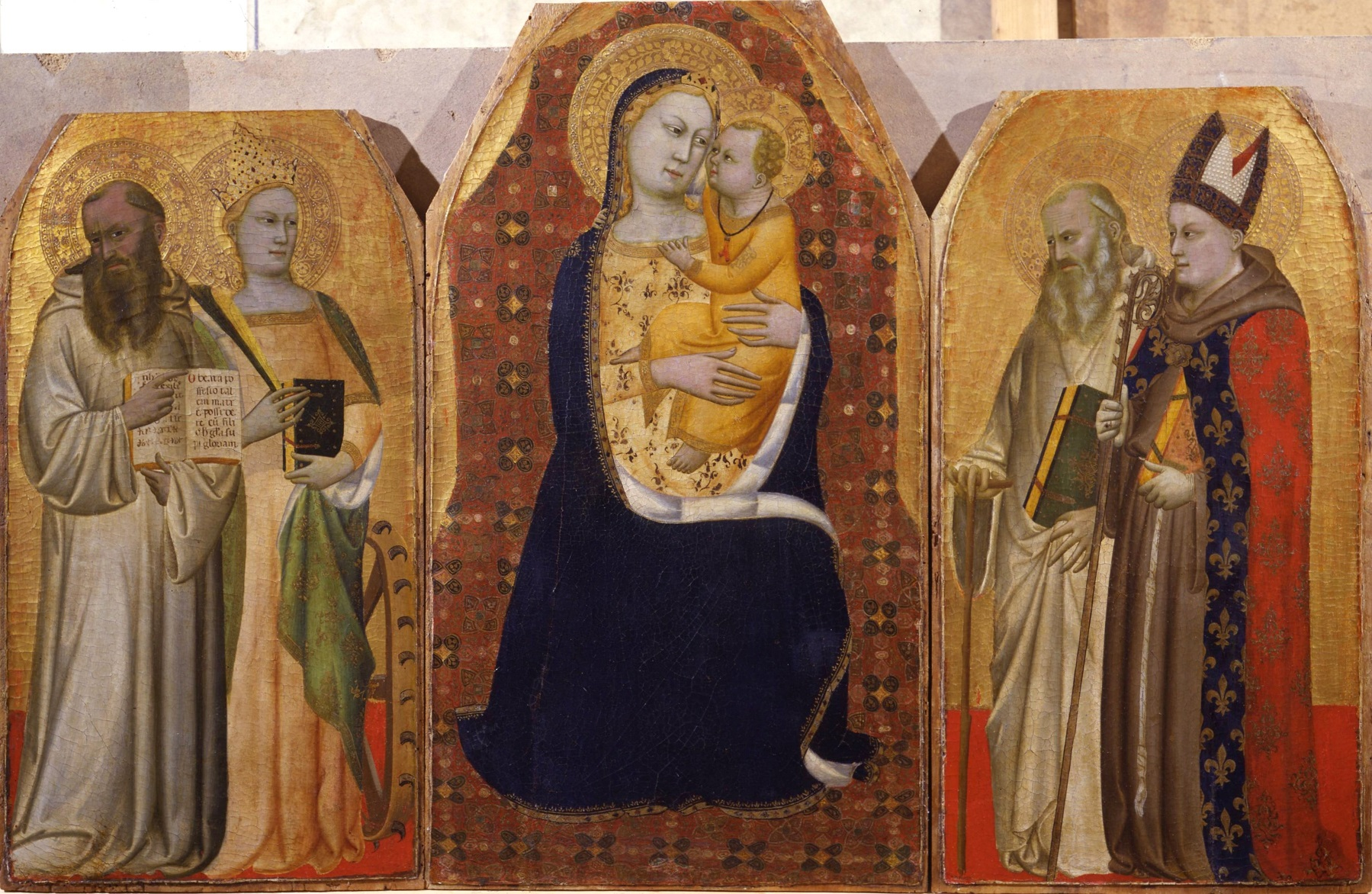 PUCCIO DI SIMONE Madonna col Bambino in trono e quattro Santi, ca. 1350, Urbino (PU), Galleria Nazionale delle Marche